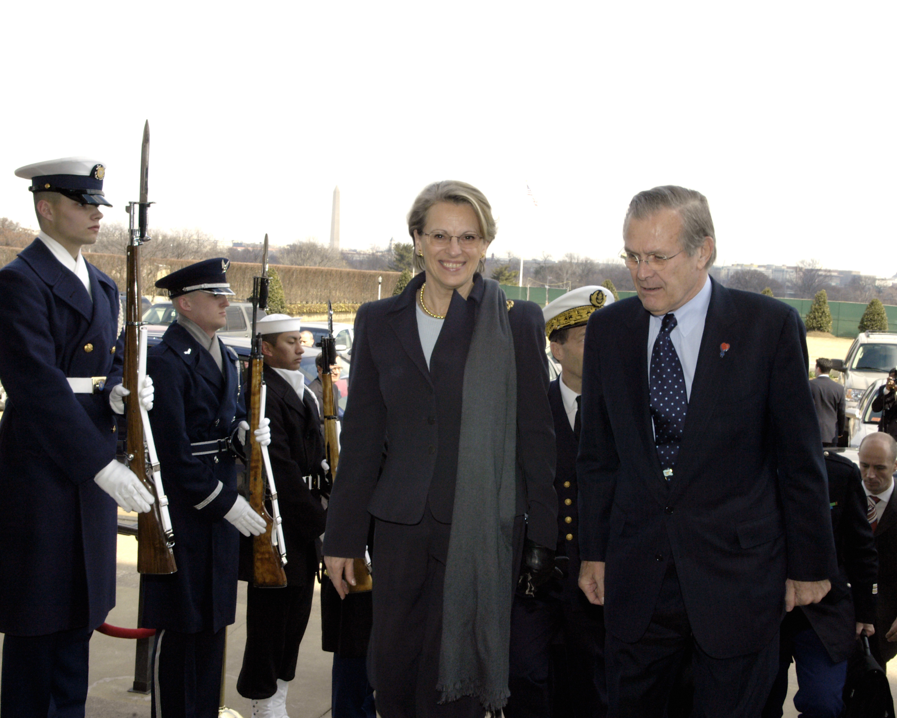 French Minister of Defense Michele Alliot-Marie (left) is escorted through an honor cordon and into the Pentagon by Secretary of Defense Donald H. Rumsfeld.